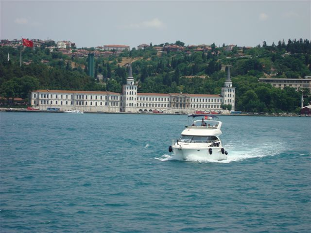 Kuleli Military High School, Istanbul, Turkey